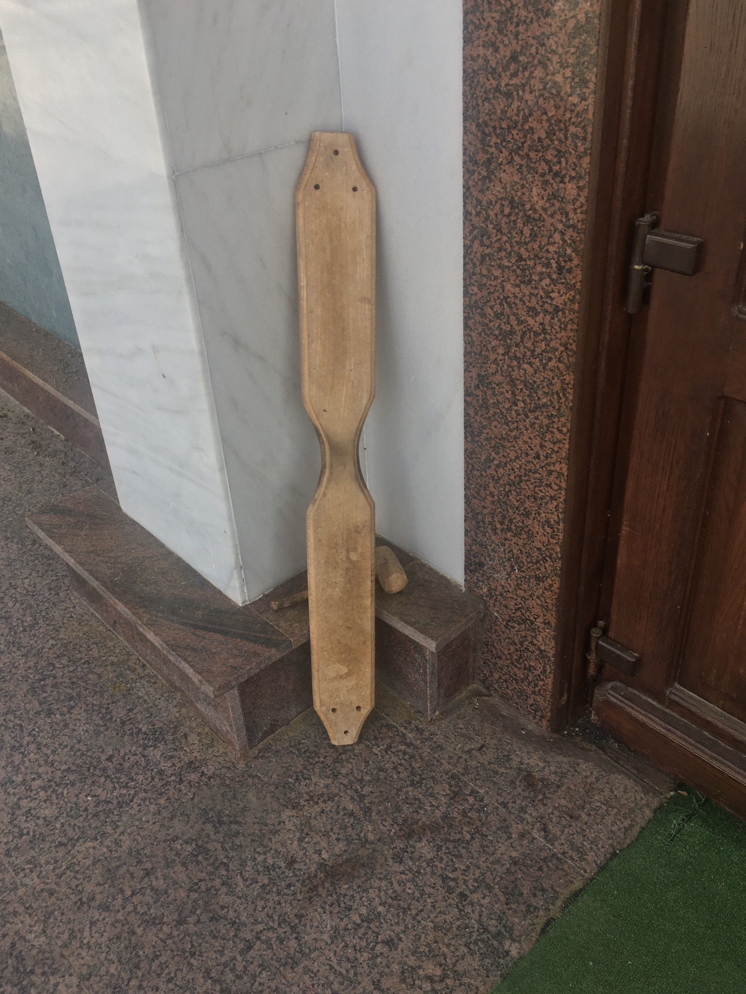 Portable semantron, Musunoaiele Monastery, VN, Romania